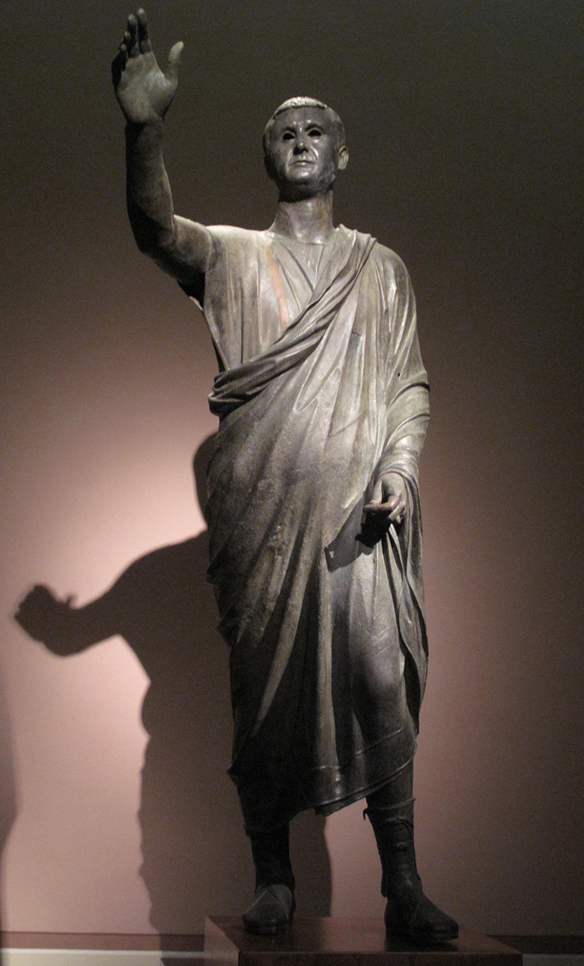 Aule Metele is a Romano-Etruscan work in the Roman style and depicts an Etruscan man wearing a short Roman toga and footwear. His right arm is raised to indicate that he is an orator addressing the public. An inscription on the hem of his toga gives his name and parentage.